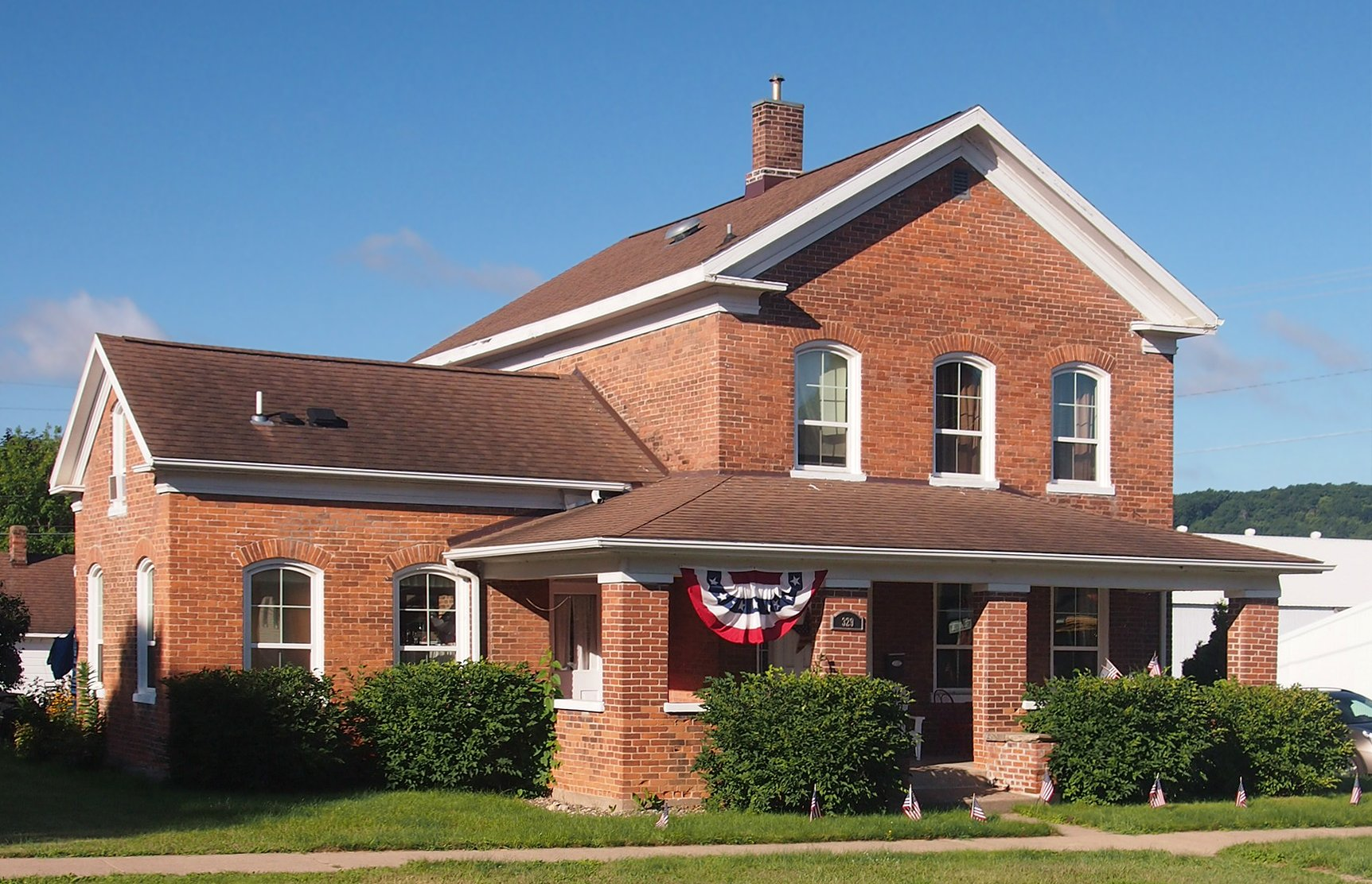 Alexander Thoirs House, 329 W 2nd St, Wabasha, Minnesota, USA. Viewed from the northeast.